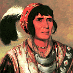 Portrait painting from life of Osceola, by George Catlin (d. 1872), oil on canvas, 1838. at Fort Moultrie